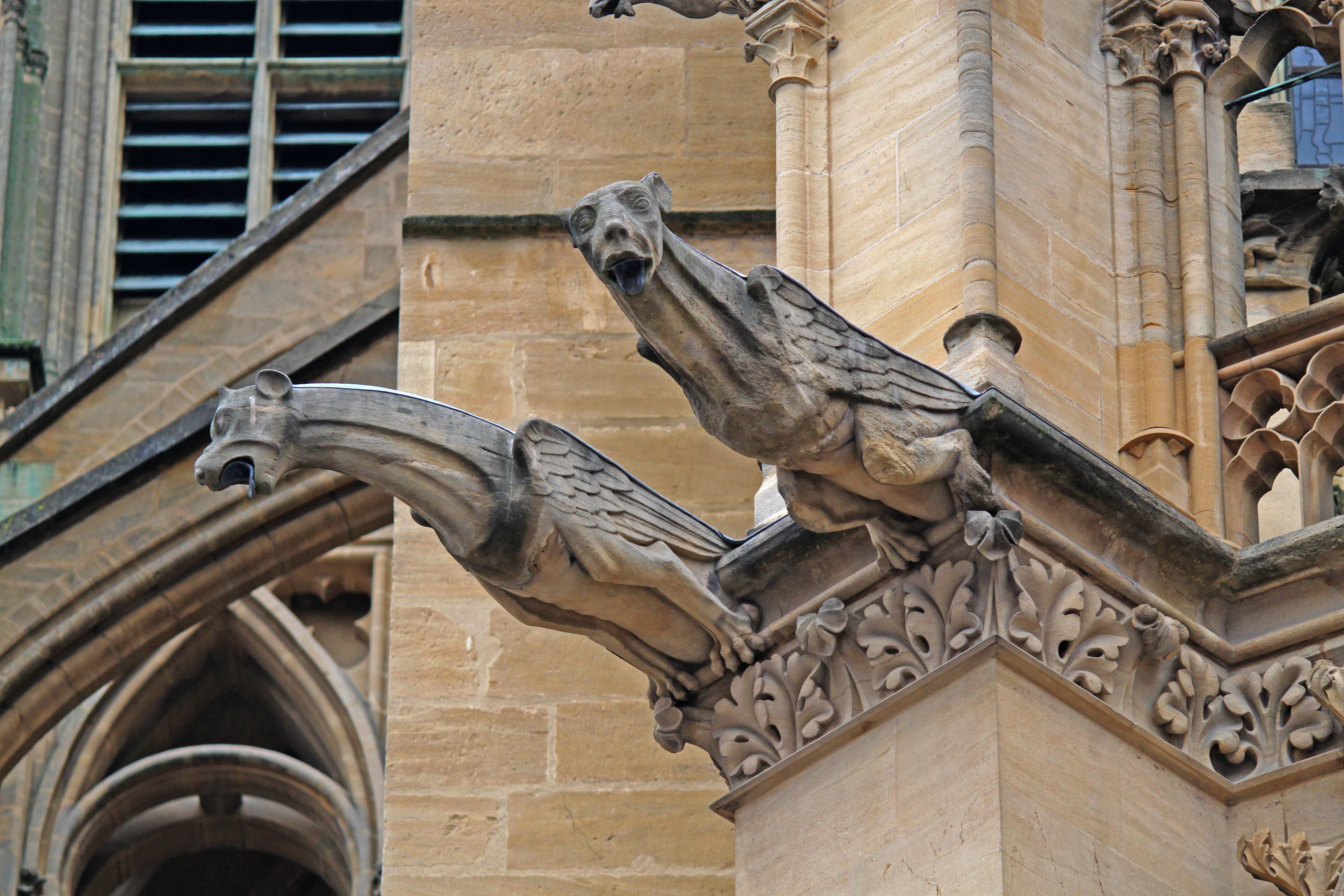 Gargoyles at the west facade of the Cathedral of Metz, France